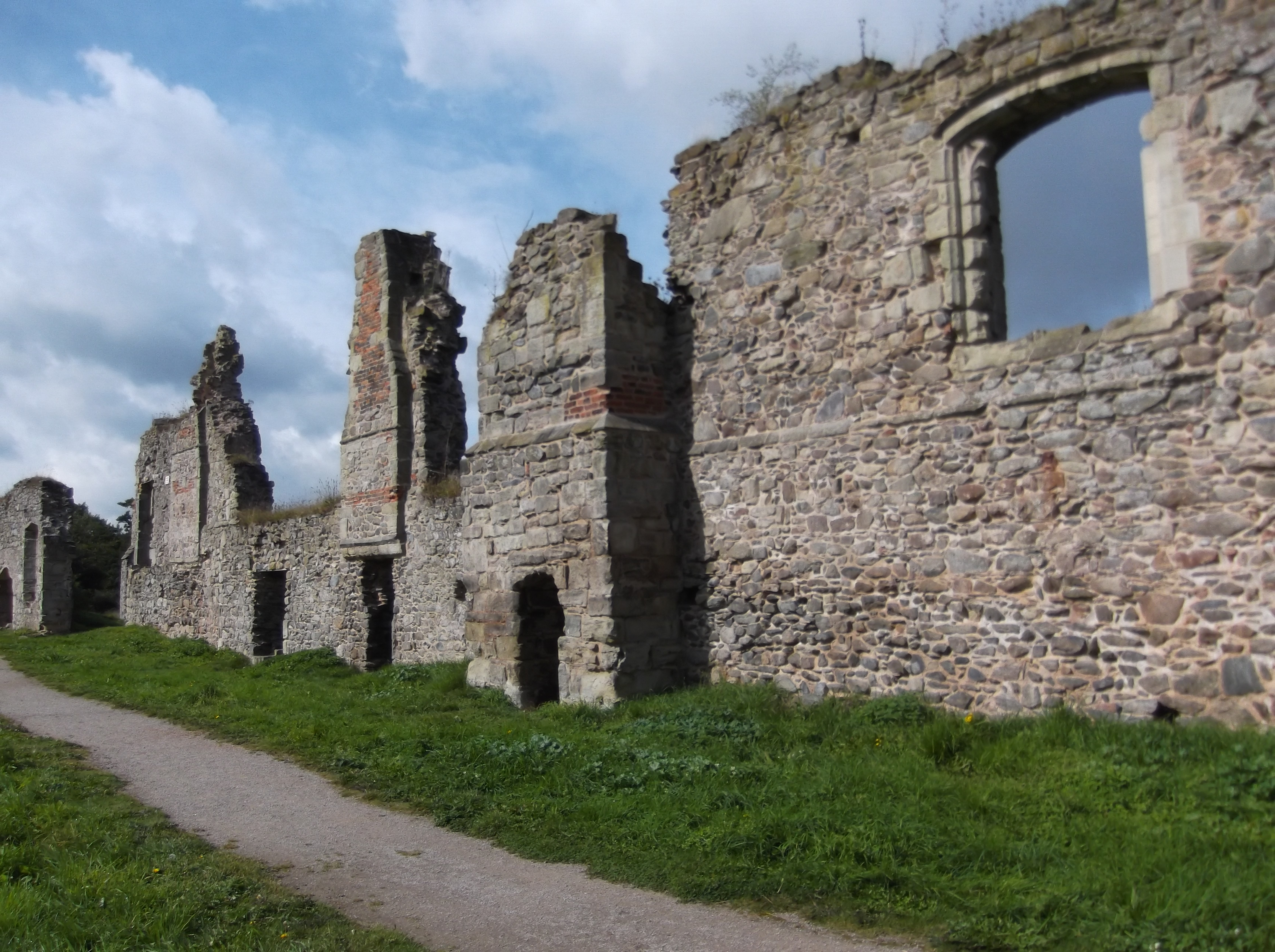 Photograph of the remains of the south range of Grace Dieu Priory, Leicestershire, England